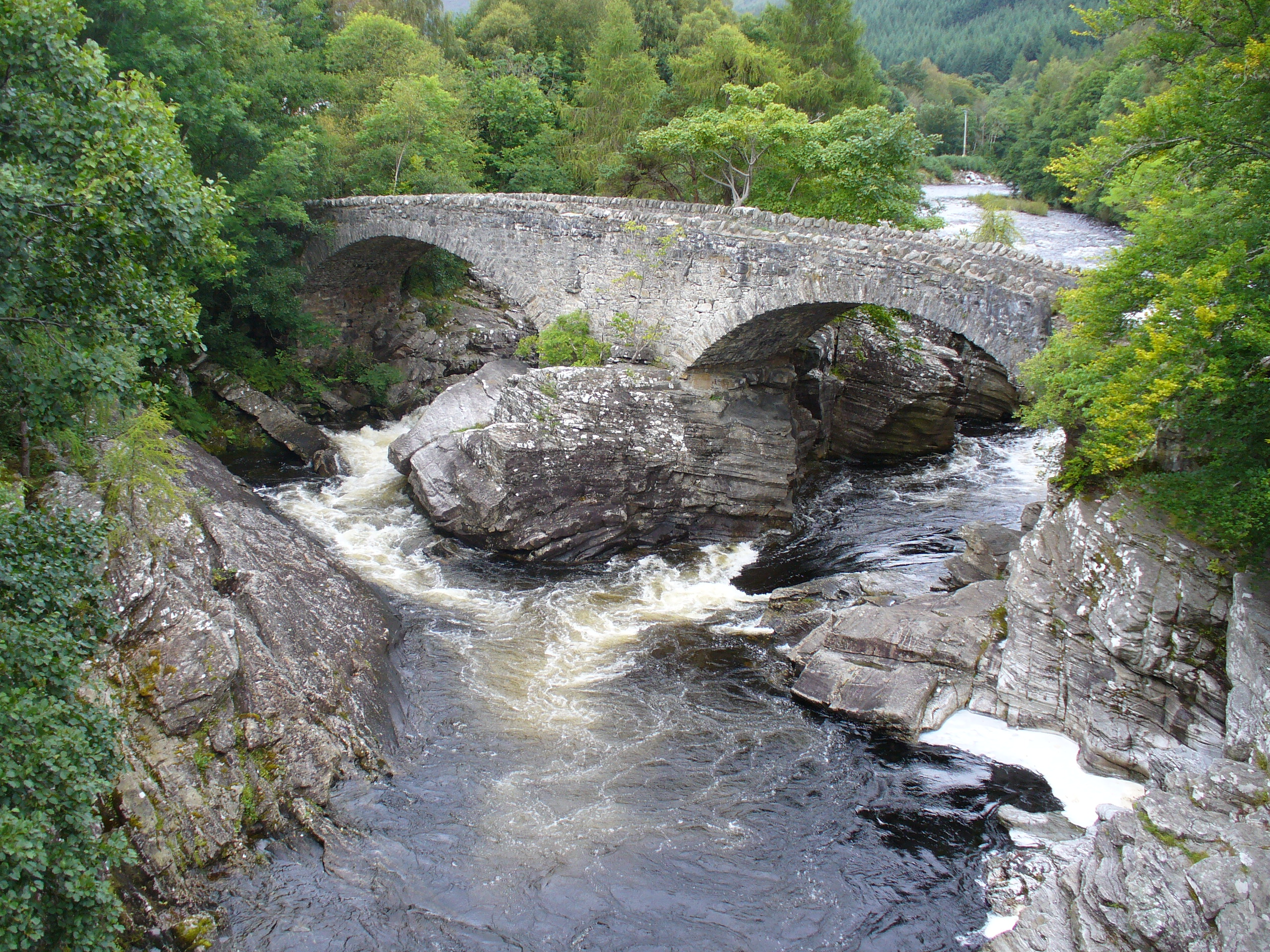 Invermoriston Old Bridge, Scotland, built in the middle of the 18th century